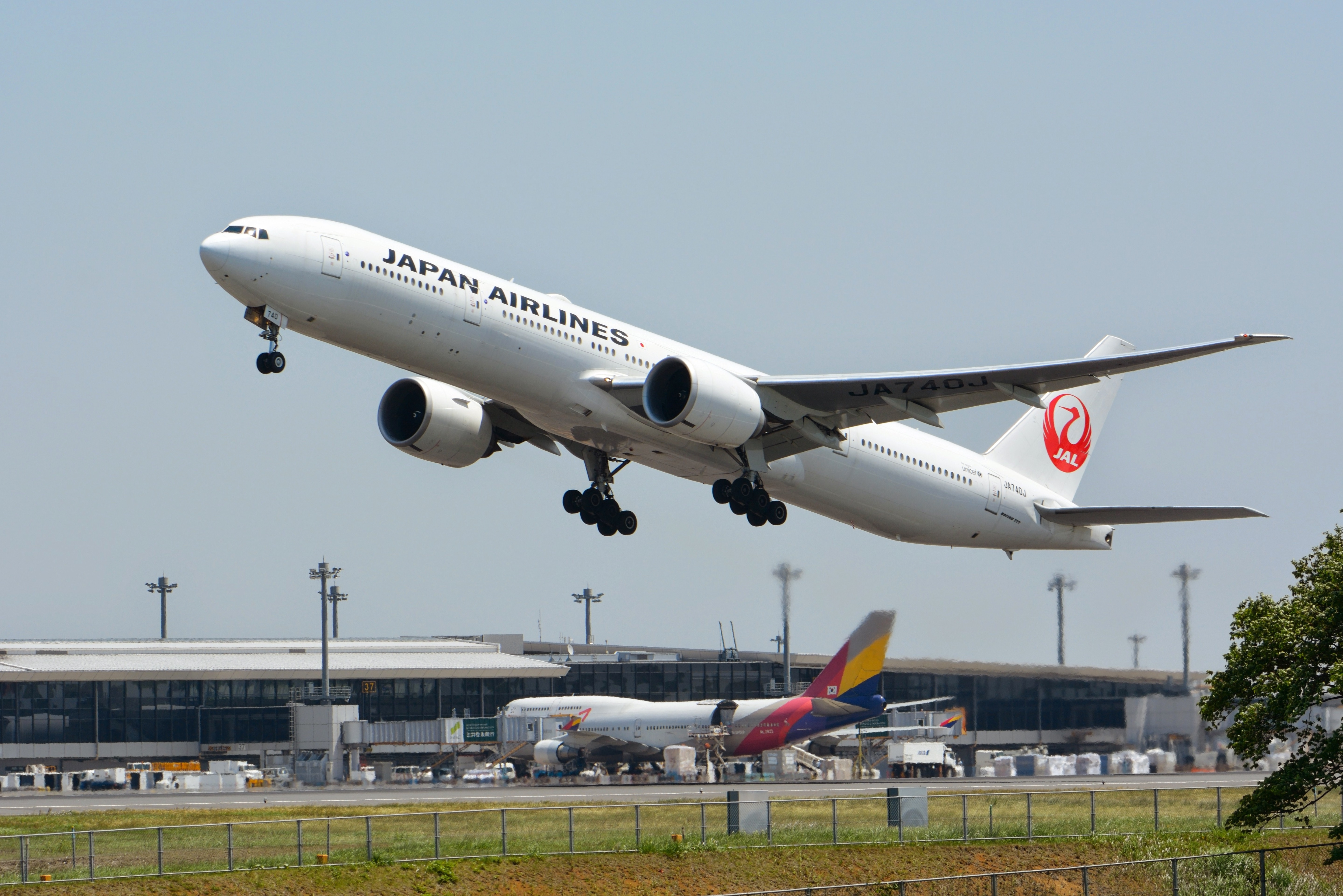 Japan Airline, Boeing 777-300ER JA740J NRT